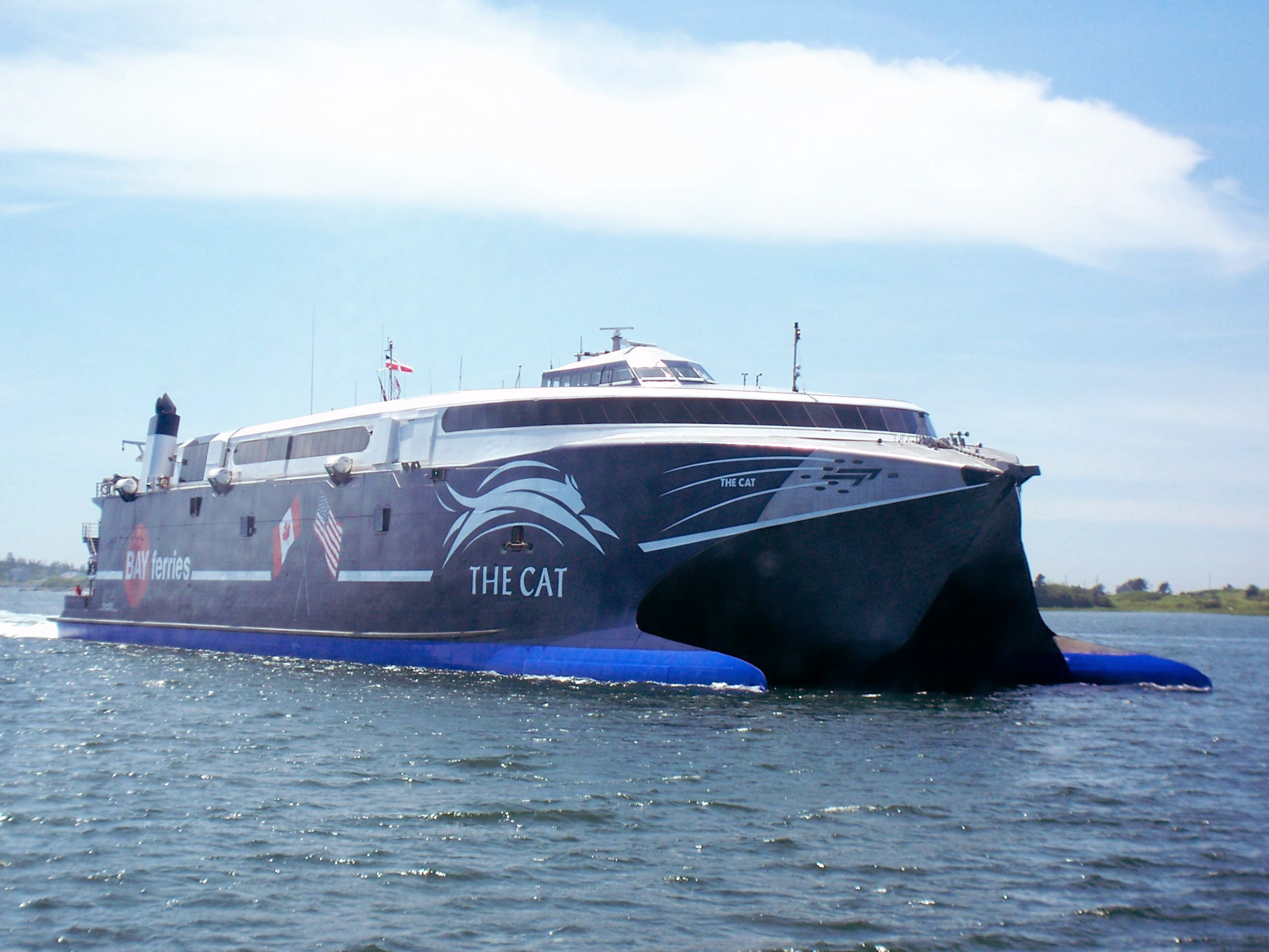 The cat car ferry in Yarmouth, Nova Scotia IMO Number: 9237656 MMSI Number: 311364000 Callsign: C6SJ8 Length: 78 m Beam: 26 m